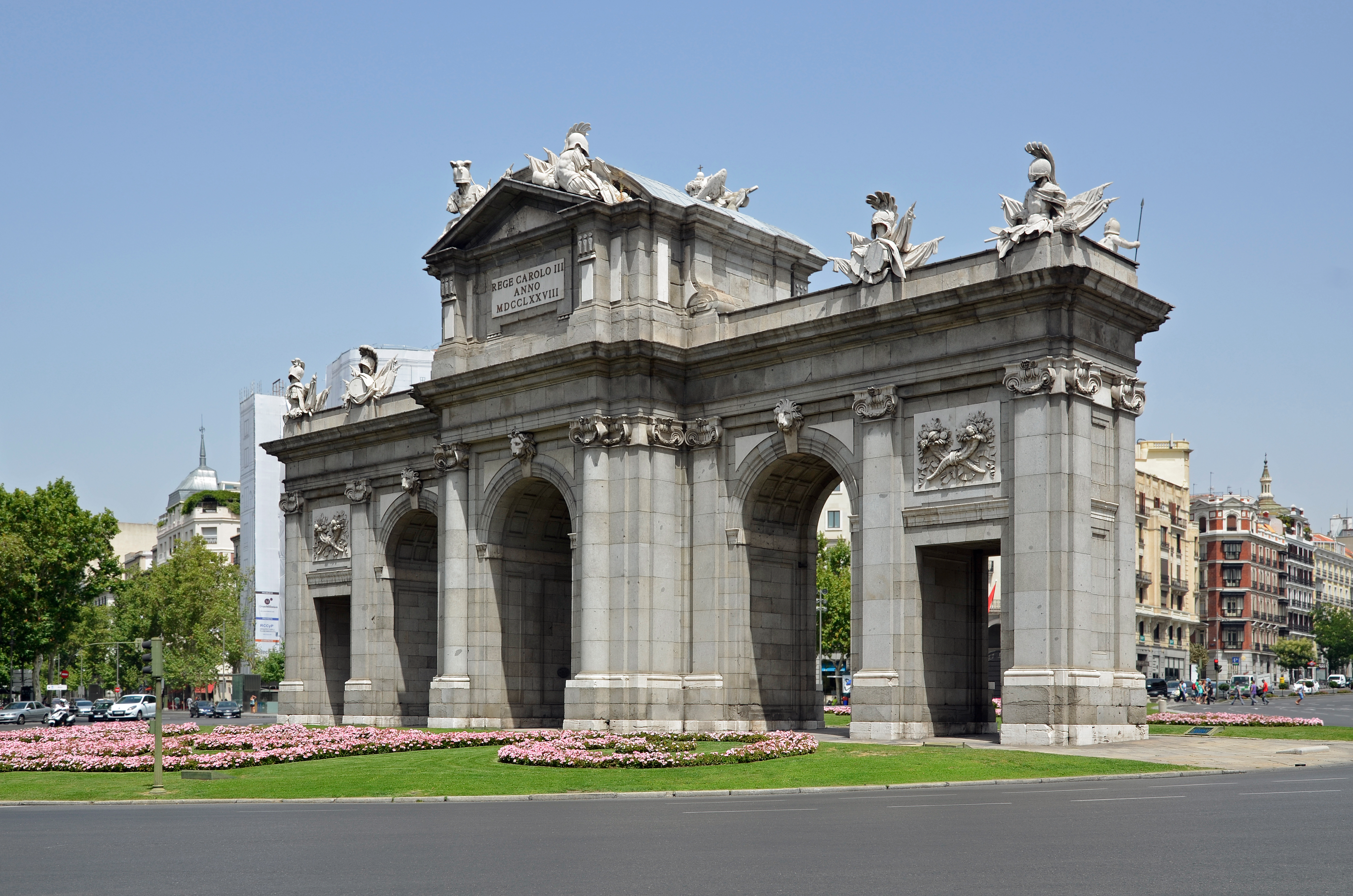 West side of Puerta de Alcalá (1774–1778). Architect : Francesco Sabatini (1722–1797). Madrid, Spain.